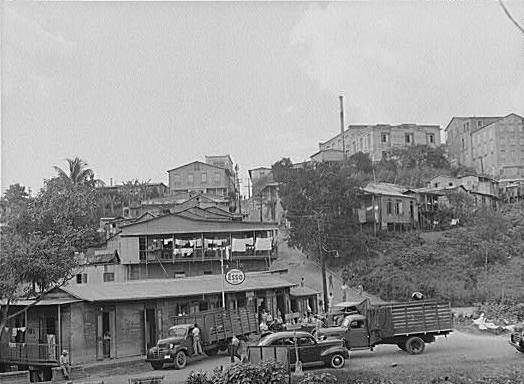 A street in the town of Lares, Puerto Rico.